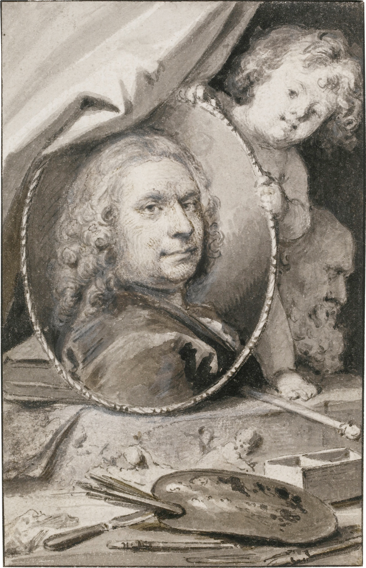 Self portrait pen and brown and grey ink and brown and grey wash, heightened with greyish white 14.4 by 9.1 cm